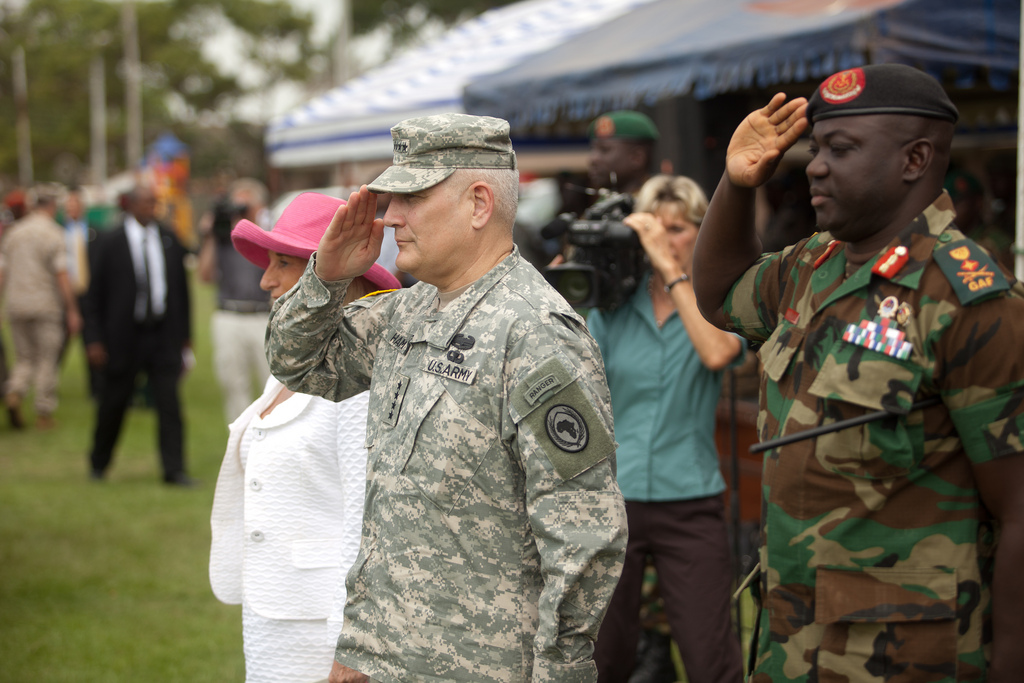 U.S. African Command Commander Gen. Carter Ham, Gambian Minister of Defense Lt. Gen. Masanneh N. Kinteh and U.S. Ambassador to The Gambia Pamela White survey the troop formation marching in the closing ceremonies for the Africa Endeavor exercise.